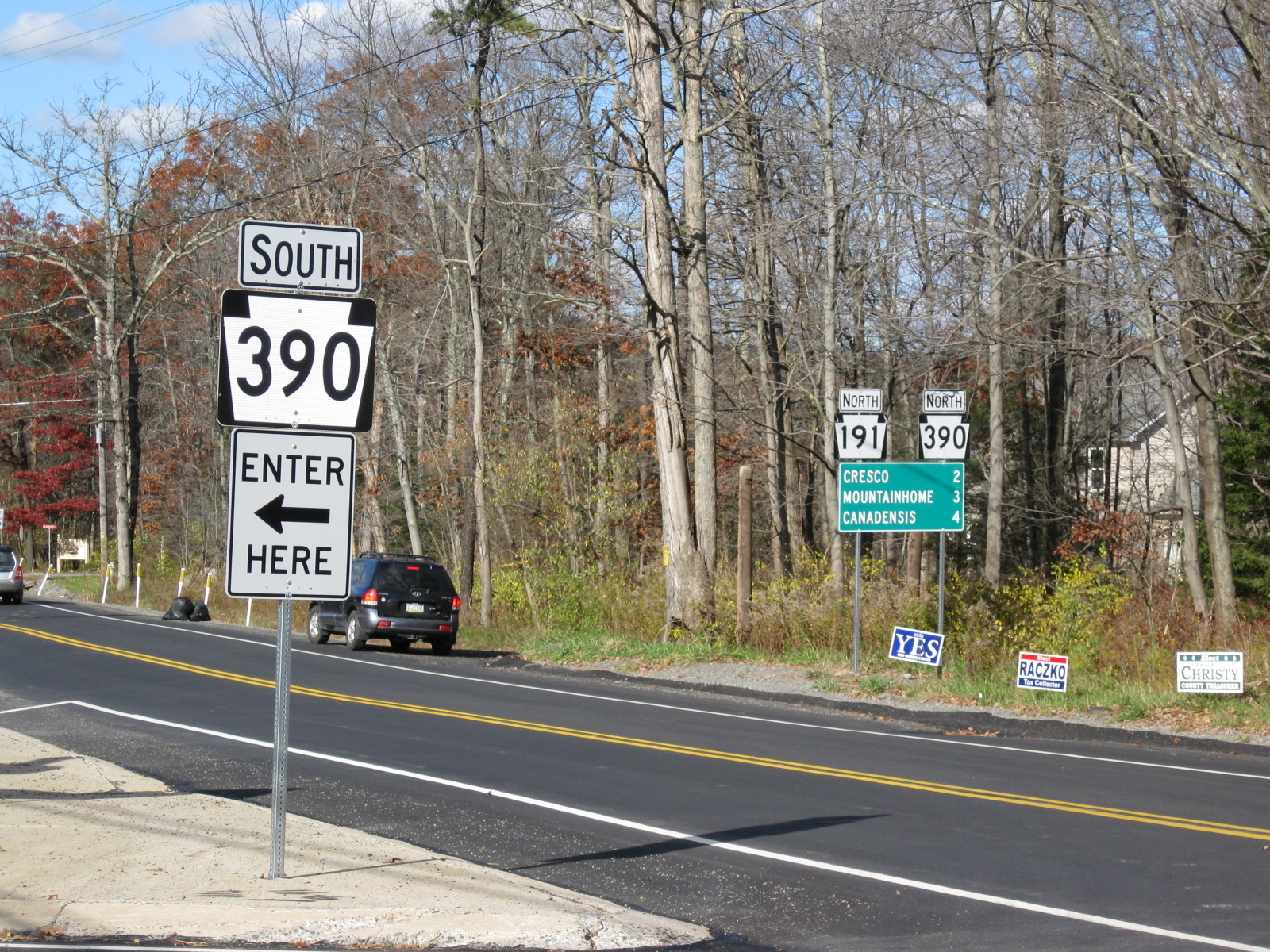 Pennsylvania State Route 191 at the southern terminus of the concurrency with Pennsylvania State Route 390 in Paradise, Pennsylvnia.